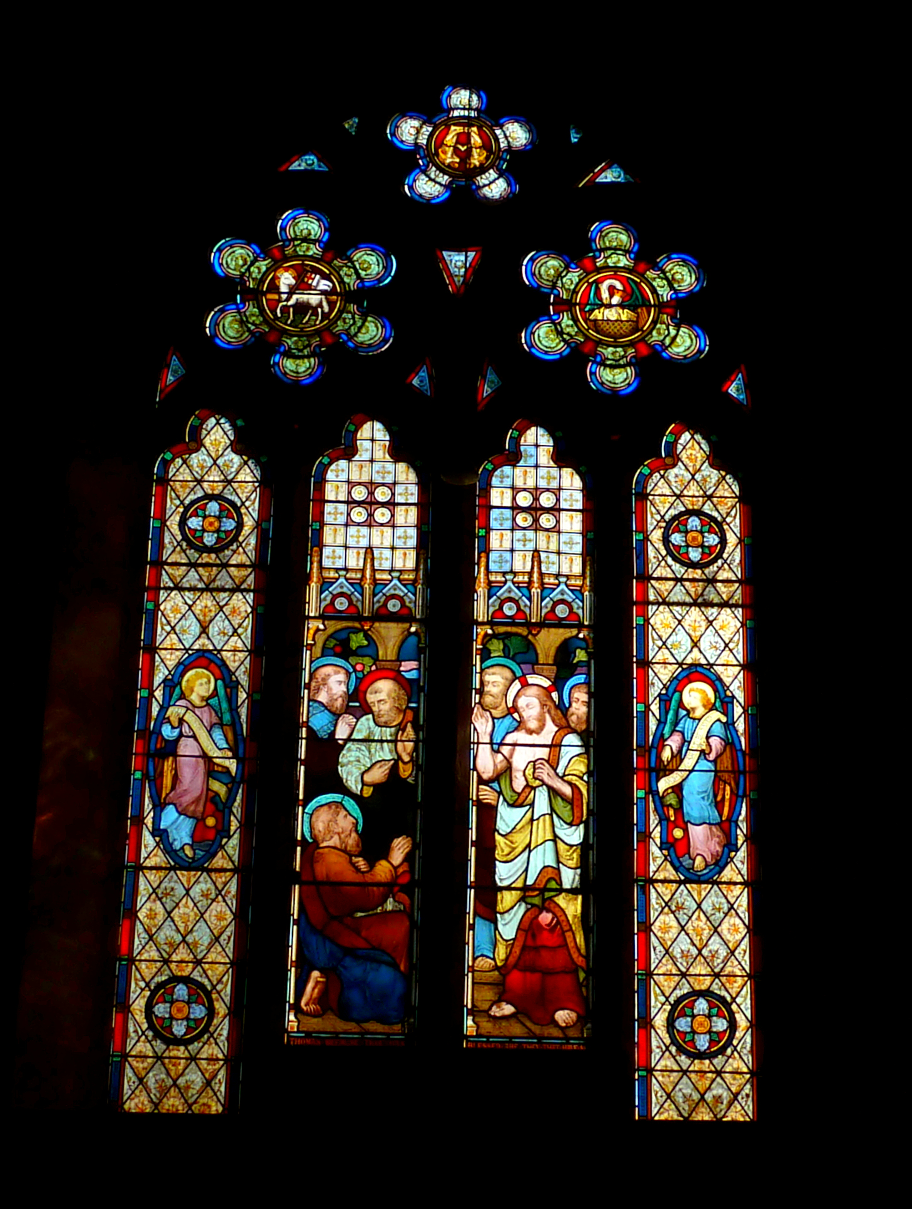 Stained glass in Church of St Thomas the Apostle, Killinghall, North Yorkshire, England. Church completed in 1880, by architect William Swinden Barber. The four-light east window was supplied in 1880 by Cox & Son. The subject and some details may have been chosen by the benefactor and the Church, but the design would have been commissioned by the architect. The windows would have been the most expensive part of this building's original cost of £4,000. Thomas Strother, who paid for this window, dedicated it to his wife or mother, and died while the church was in process of construction. The design of the central two lights is based on John 20:24-29, the story of Doubting Thomas. In this image, Thomas (shown kneeling at bottom of second light from left) has finally seen the Resurrection and checked the wounds, and he now believes in it. The top part of the window consists of three rose lights, containing symbols. The left symbol is the Paschal Lamb, a heraldic symbol in which the Lamb of God carries the cross of St George. The right-hand rose shows a pelican vulning, a heraldic symbol (a crest in this case) of a self-sacrificing pelican feeding her young with the blood from her breast, symbolising the Passion. This medieval symbol was superseded by the Lamb and Flag. The image in the uppermost rose shows the intertwined Alpha-Omega, representing the beginning and the end - a symbol of Jesus. The bottom part of the two central lights is obscured by the screen behind the altar.